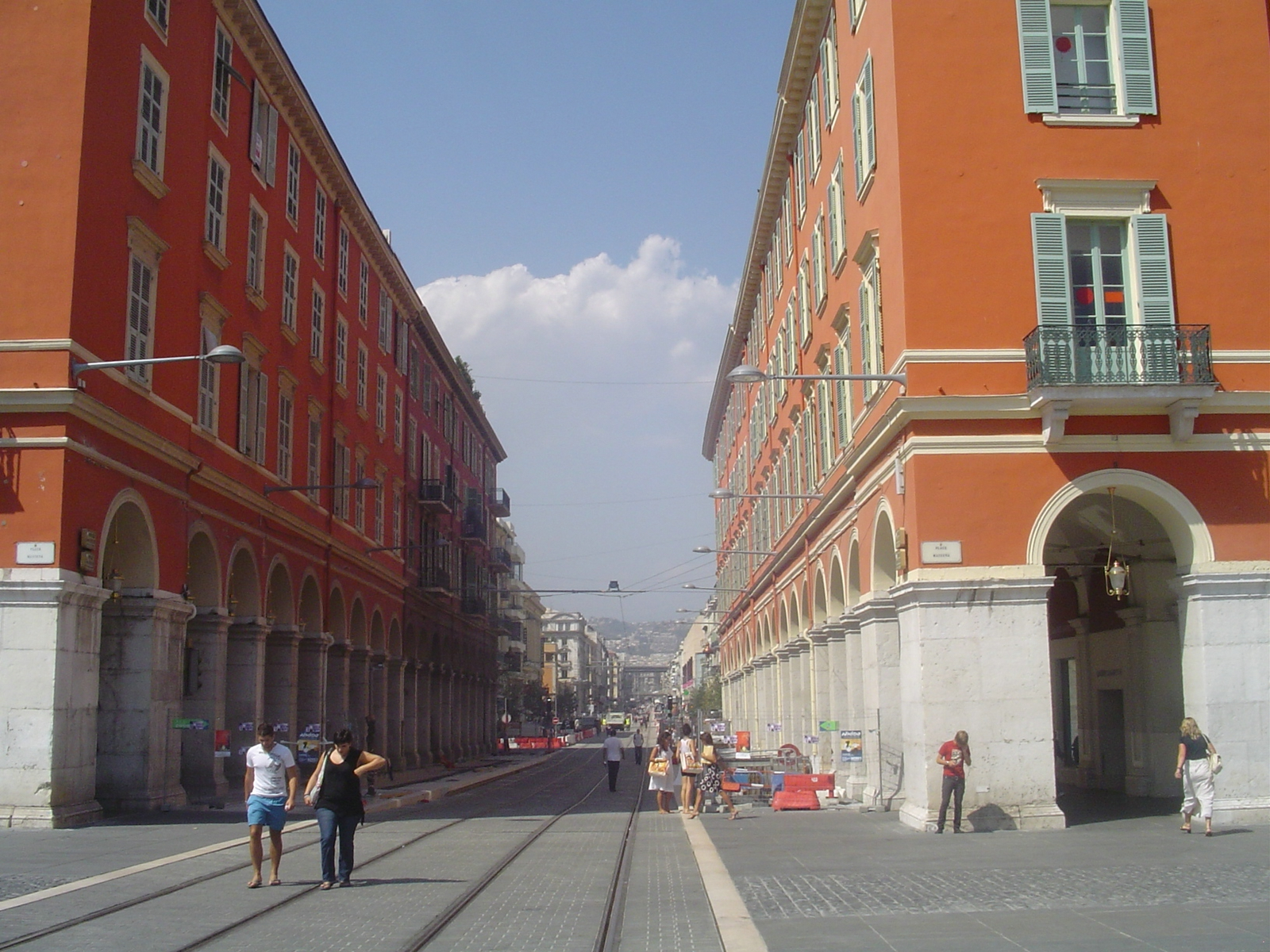 The avenue Jean-Médecin from the place Masséna, in Nice, France.